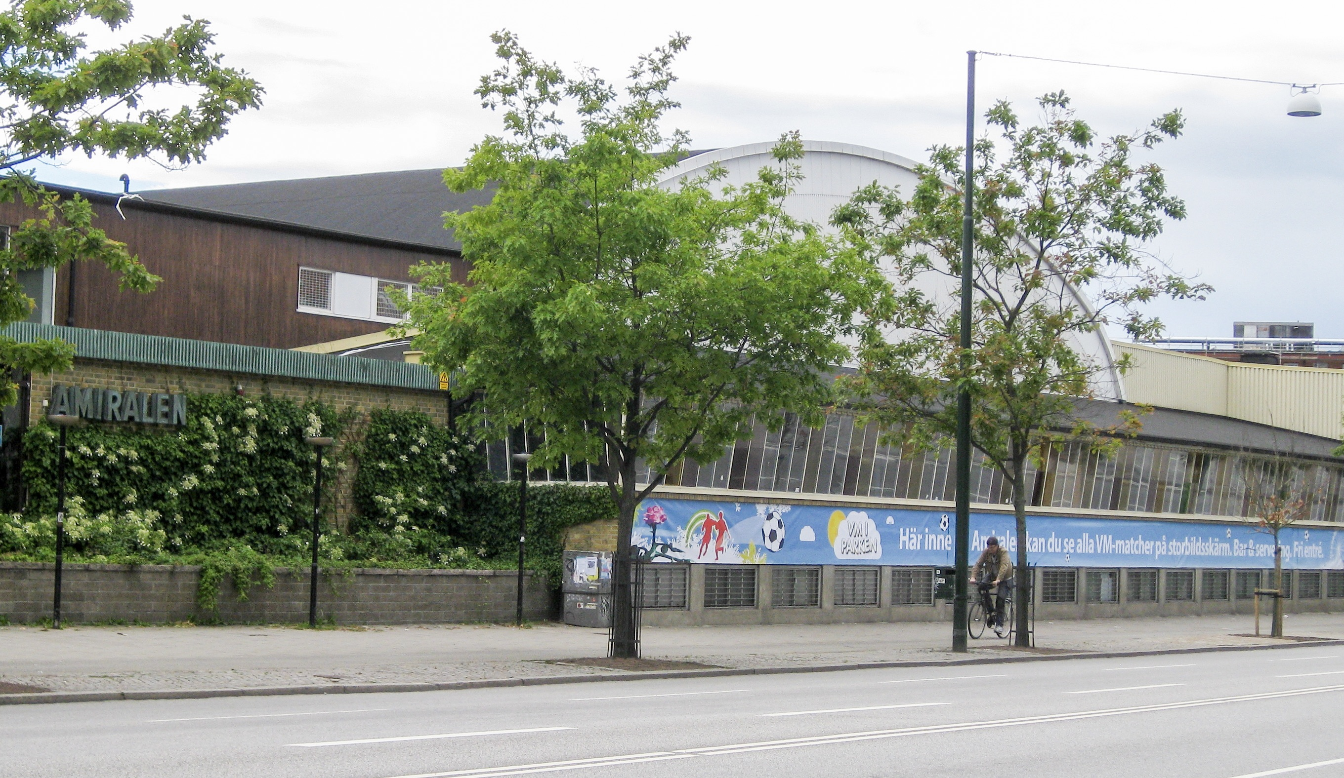 Amiralen dance palace, Malmö, Sweden